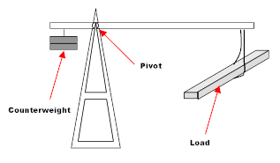 Very simple diagram of a crane with counterweight